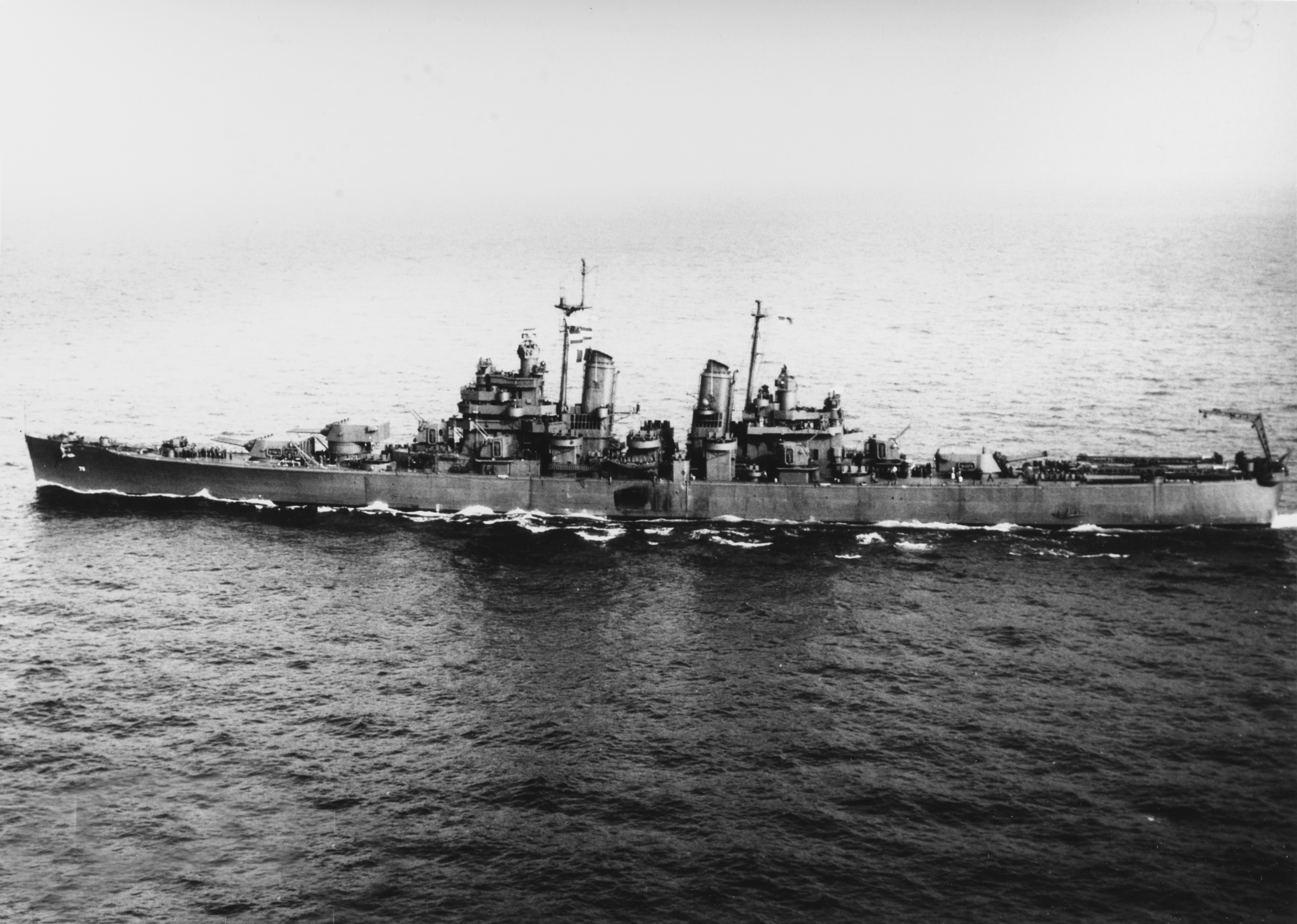 The U.S. Navy heavy cruiser USS Saint Paul (CA-73) underway in Massachusetts Bay, 15 March 1945.